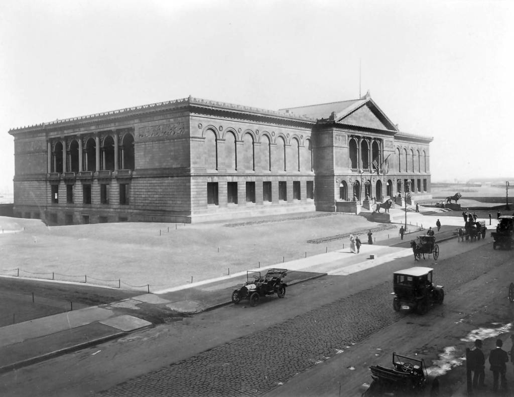 The Art Institute of Chicago building in approximately 1900